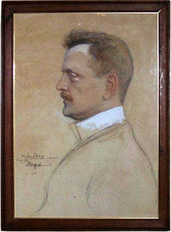 Sibelius painted by Albert Edelfelt